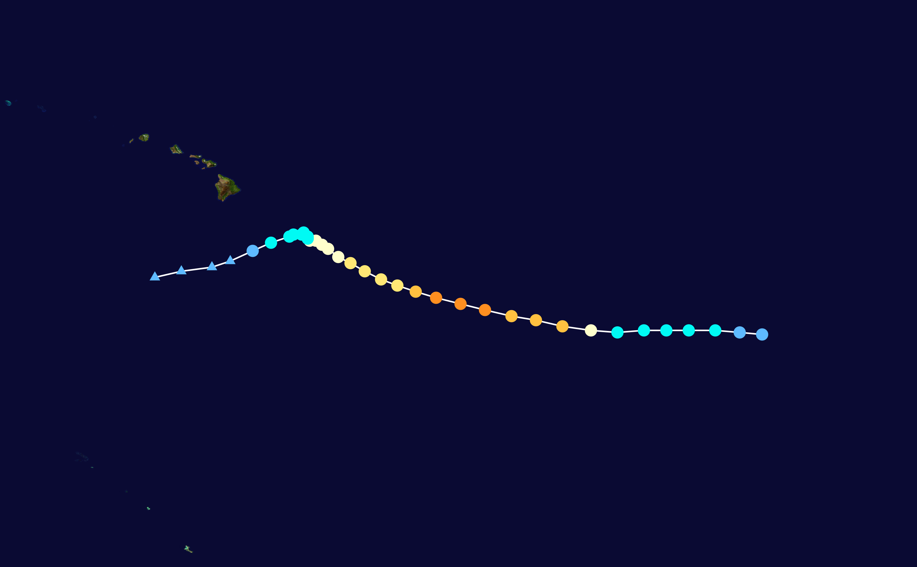 Track map of Hurricane Hilda of the 2015 Pacific hurricane season. The points show the location of the storm at 6-hour intervals. The colour represents the storm's maximum sustained wind speeds as classified in the Saffir–Simpson scale (see below), and the shape of the data points represent the nature of the storm, according to the legend below. Saffir–Simpson scale Tropical depression≤38 mph≤62 km/h Category 3111–129 mph178–208 km/h Tropical storm39–73 mph63–118 km/h Category 4130–156 mph209–251 km/h Category 174–95 mph119–153 km/h Category 5≥157 mph≥252 km/h Category 296–110 mph154–177 km/h Unknown Storm type Tropical cyclone Subtropical cyclone Extratropical cyclone / Remnant low / Tropical disturbance / Monsoon depression